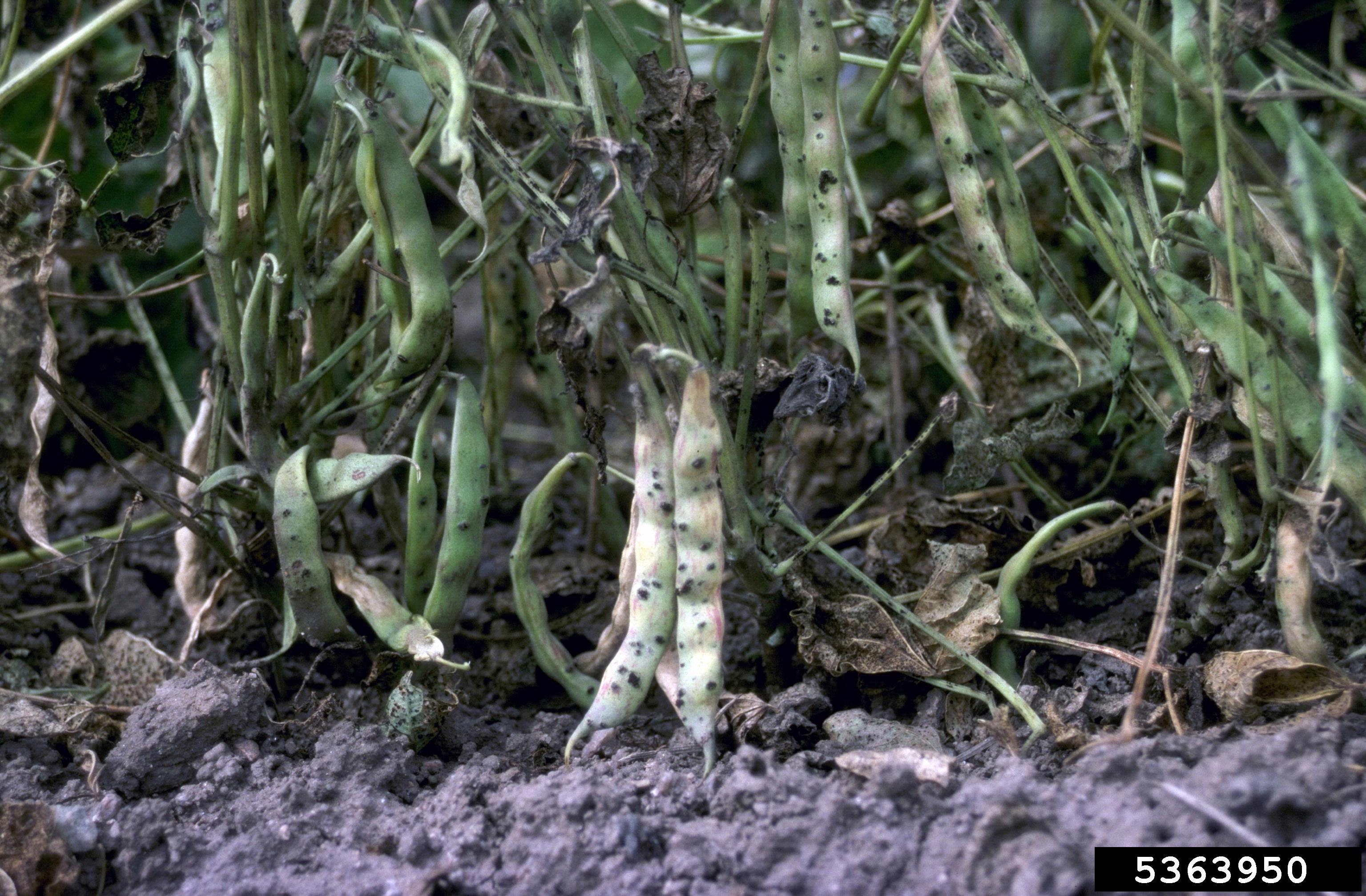 Uromyces appendiculatus telia